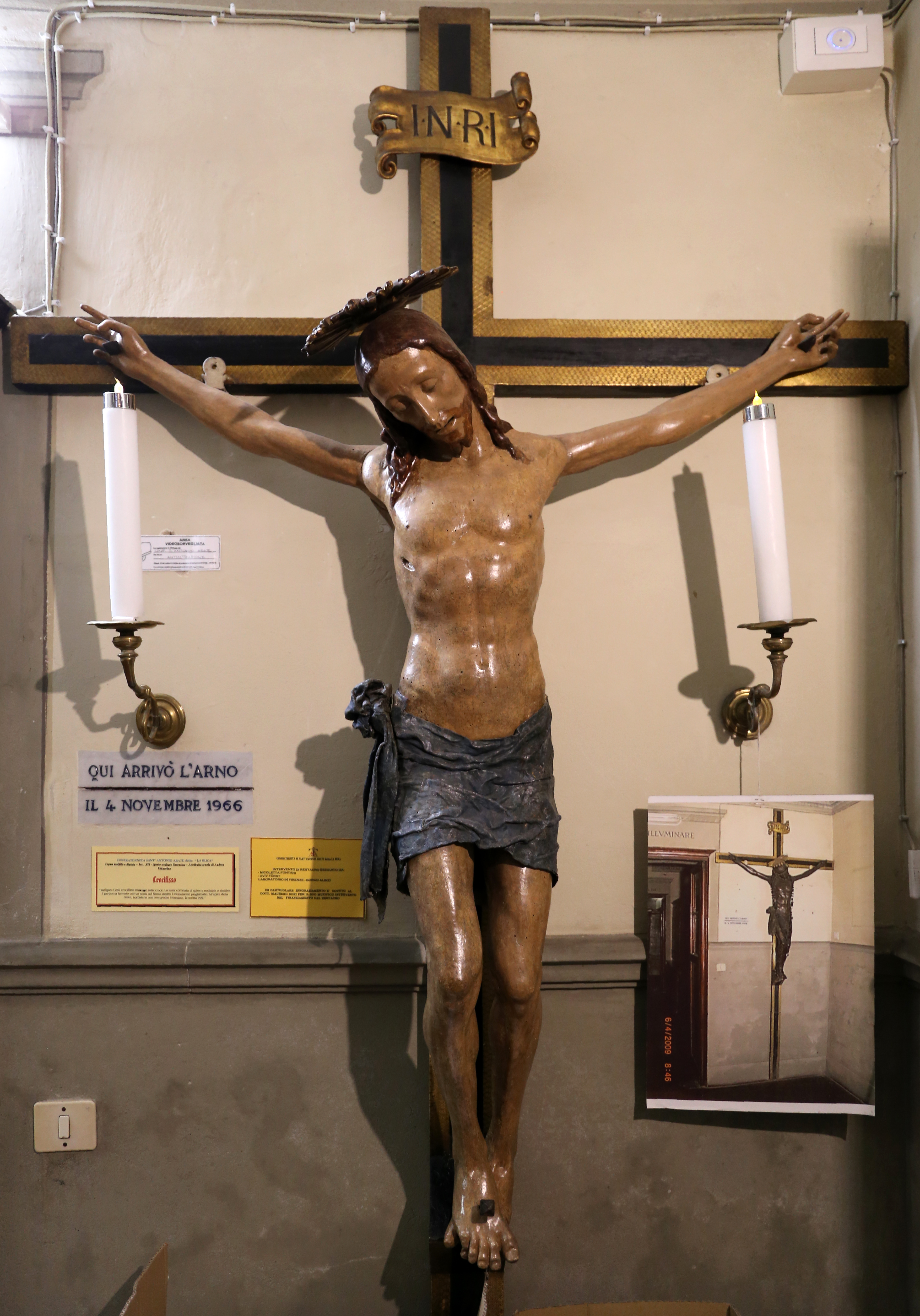 Sant'Antonio Abate (Florence) - Interior